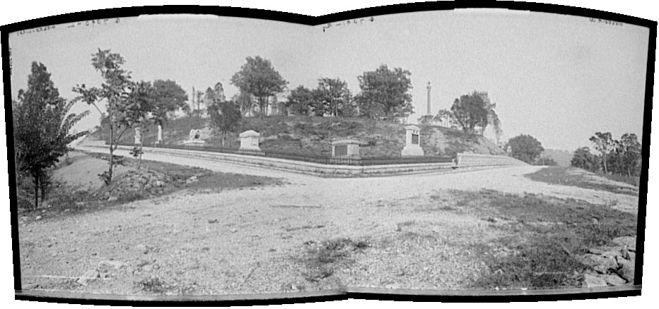 Orchard Knob, Chattanooga, Tenn.